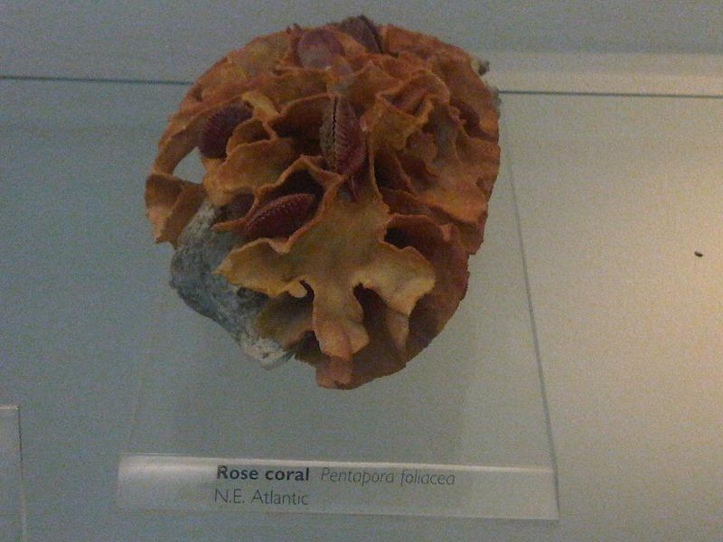 Pentapora foliacea at the Natural History Museum in London, England.